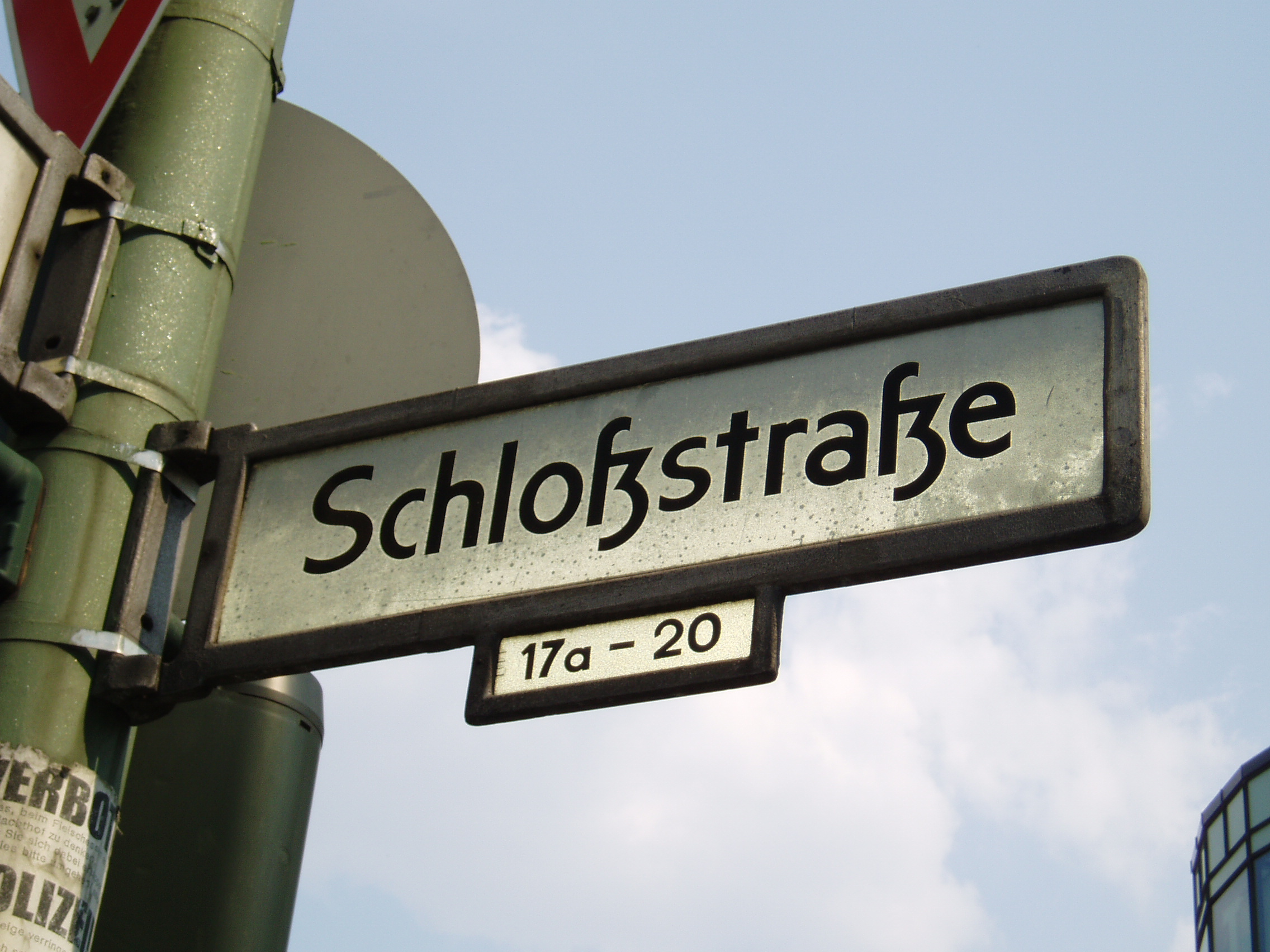 Street sign of Berlin's Schloßstraße, Berlin, Germany